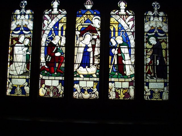 Window commemorating Lewis Carroll, All Saints, Daresbury. The author of Alice in Wonderland, Lewis Carroll (Charles Lutwidge Dodgson), was born in the parsonage at Daresbury where his father was vicar. He lived there from 1832 to 1843. This window commemorates his life, and in the lower panes are scenes from Alice in Wonderland, based on the original drawings by Tenniel. See also 284592